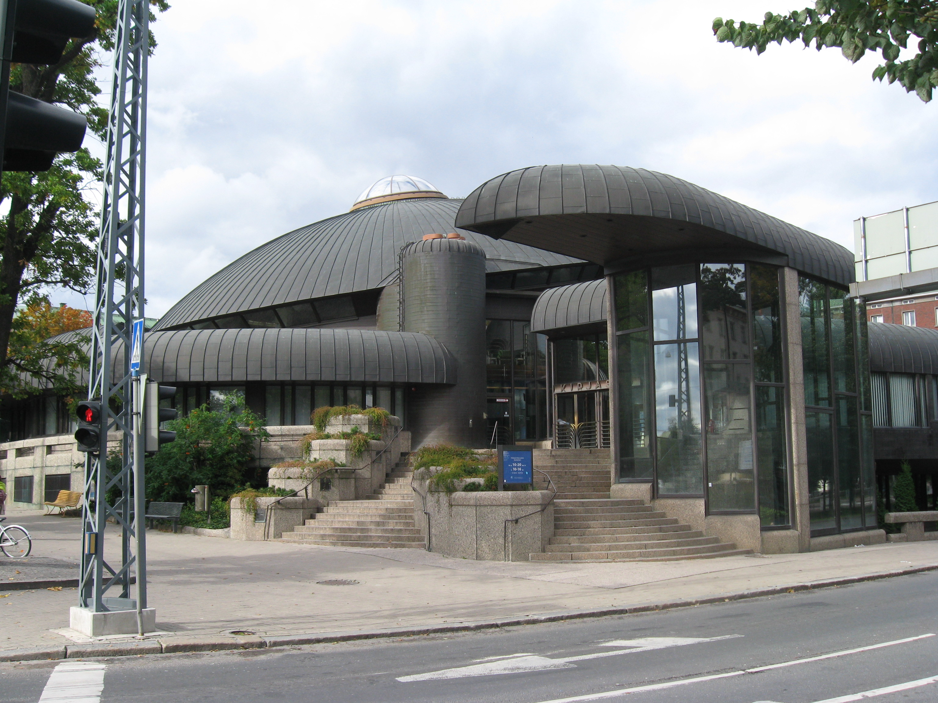 Tampere main library Metso.